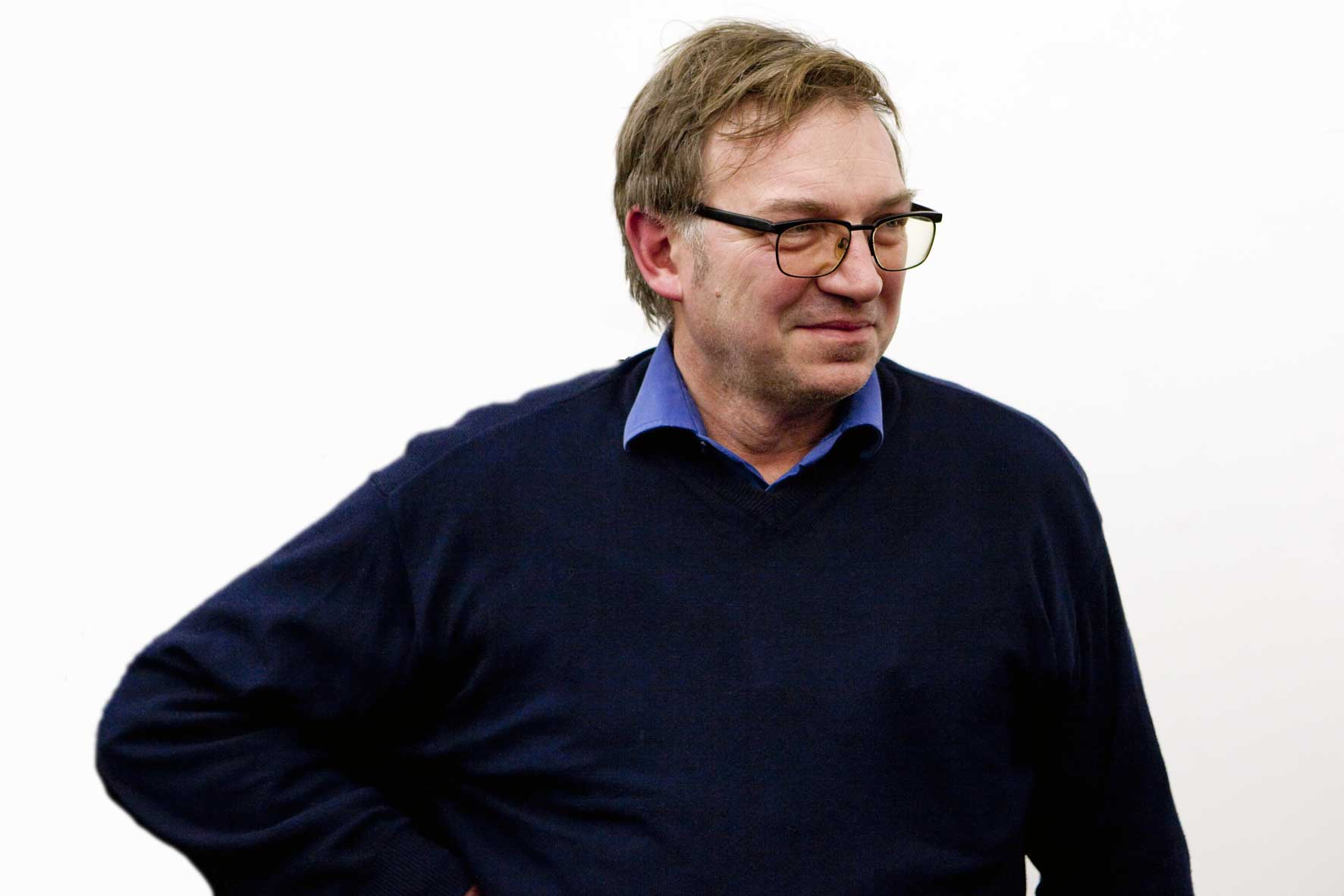 German sculpturist Stephan Balkenhol at the opening of an Olfaf Metzel exhibition, Küppersmühle, Duisburg, 2010.02.25